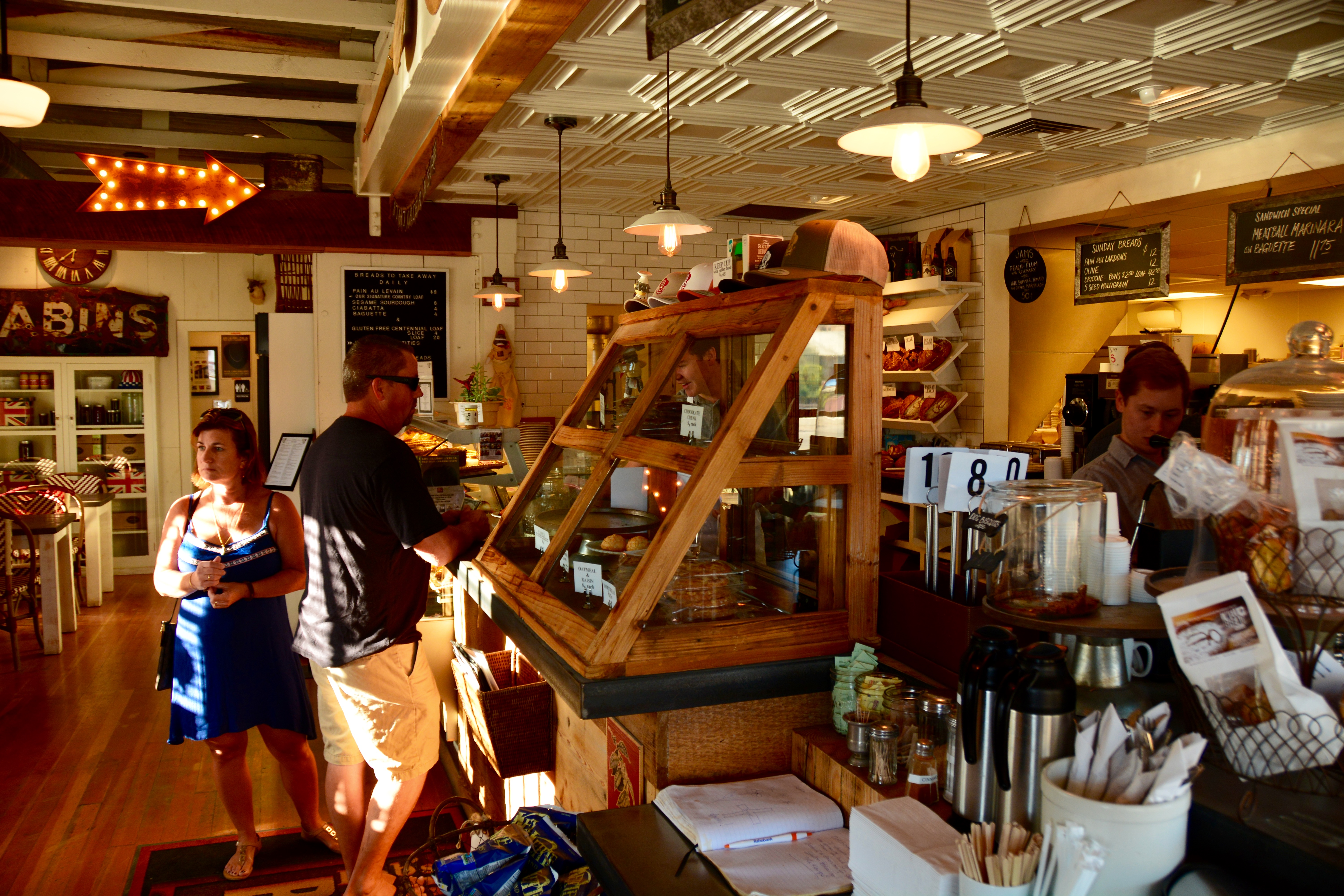 Bobs Well Bread Bakery Los Alamos California